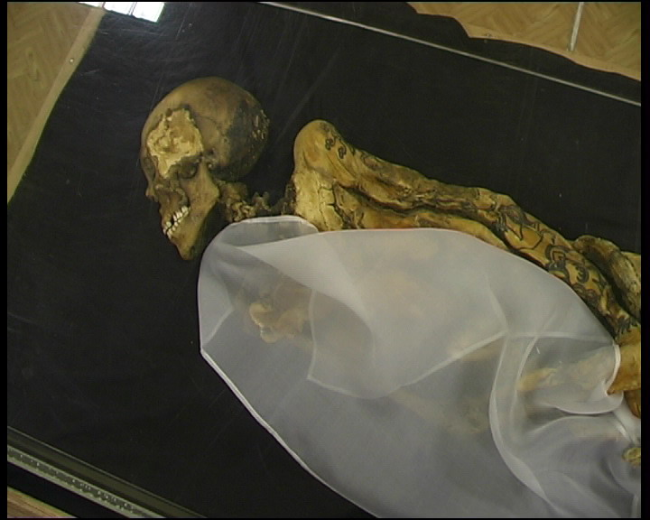 Princess Ukok/Princess of the Altai: A mummy that was found in 1993 in a kurgan in the remote Ukok Plateau in the Altai Republic in Russia, which is now the subject of a fight about her future atatus between the republic Altai and its inhabitants on one side and the Novosibirsk Institute of Archeology and Ethnography (and the Russian Academy of Sciences in general) on the other side.